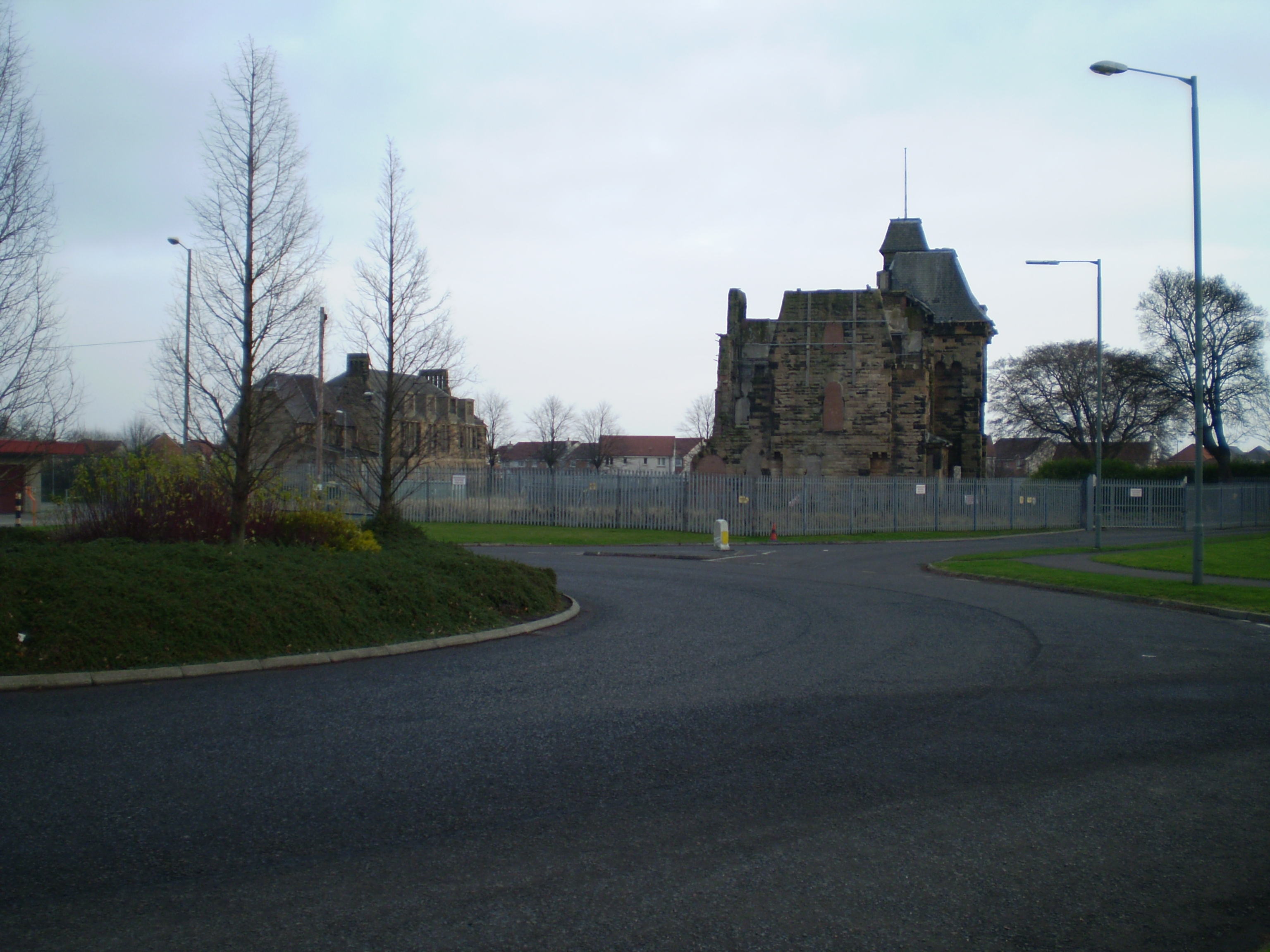 Rear elevation of the Administration Block of the Royal Scottish National Hospital at Larbert (note the High Victorian Gothic revival style of architecture). It should not be confused with Bellsdyke Hospital which was on an adjacent site and employed a very different style of architecture.